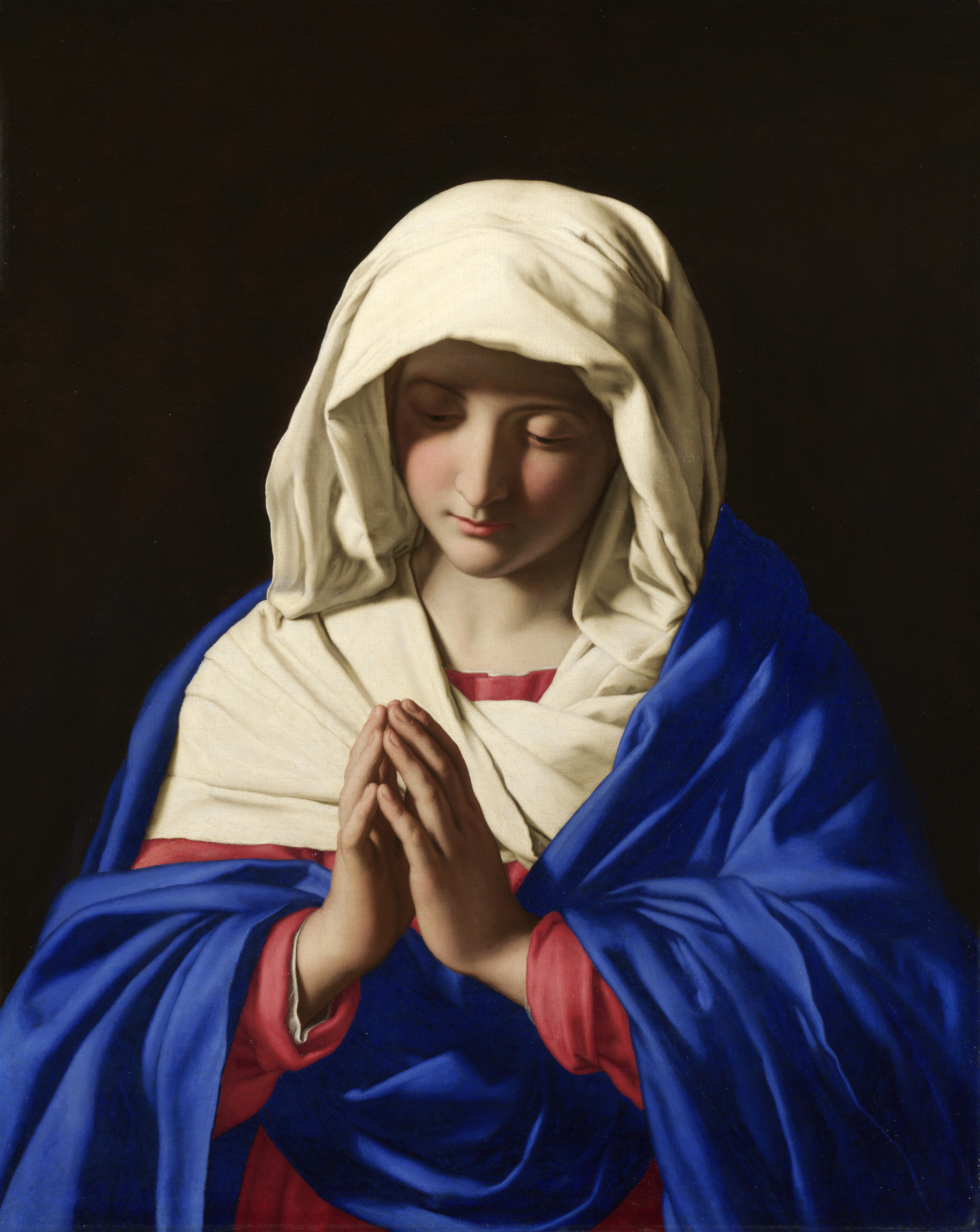 Jungfrun i bön (1640-1650). National Gallery, London.